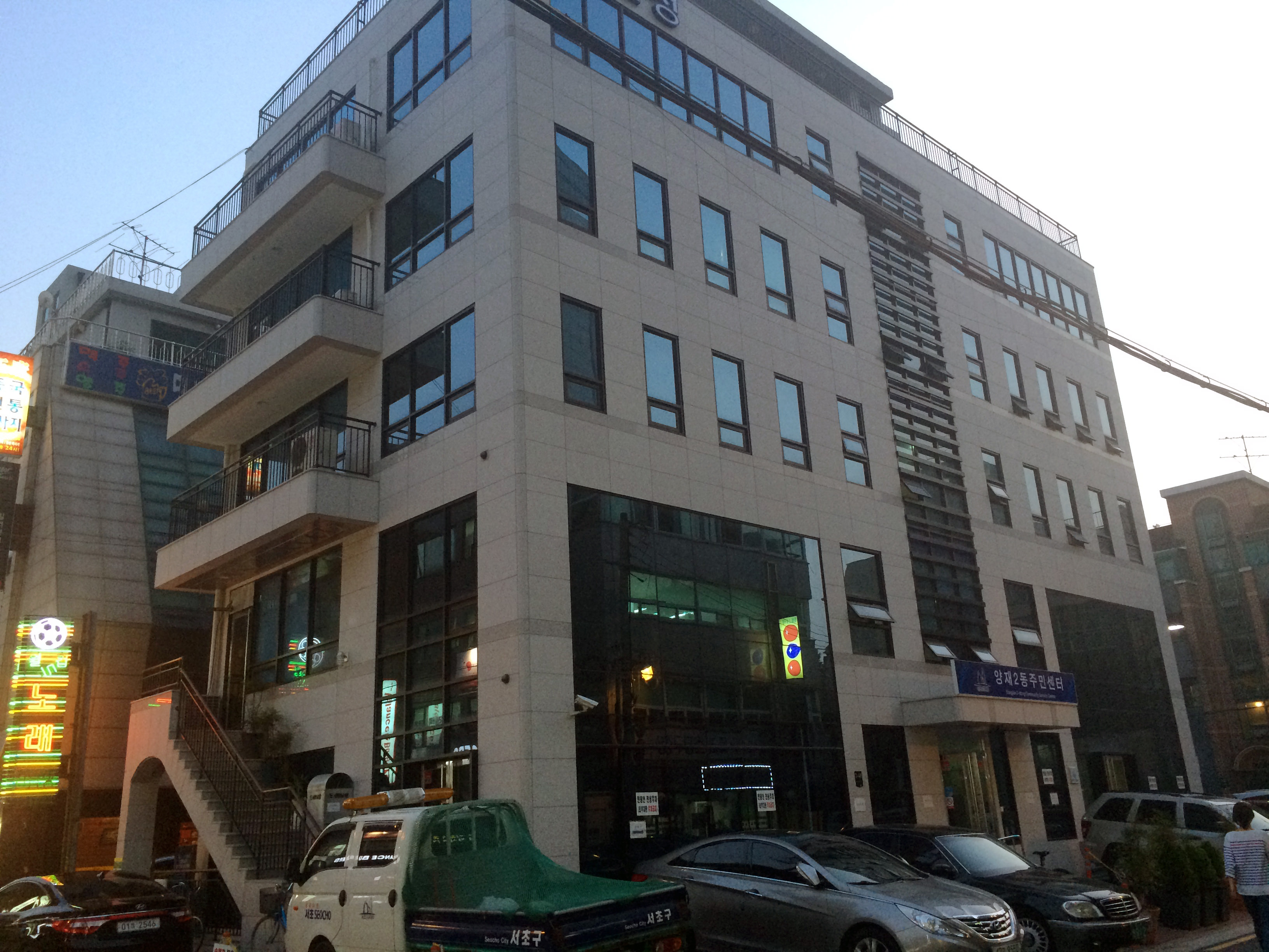 Yangjae 2-dong Comunity Service Center (Seocho-gu)